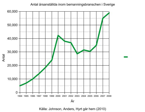 Nr. of employees within the Swedish staffing agency business.